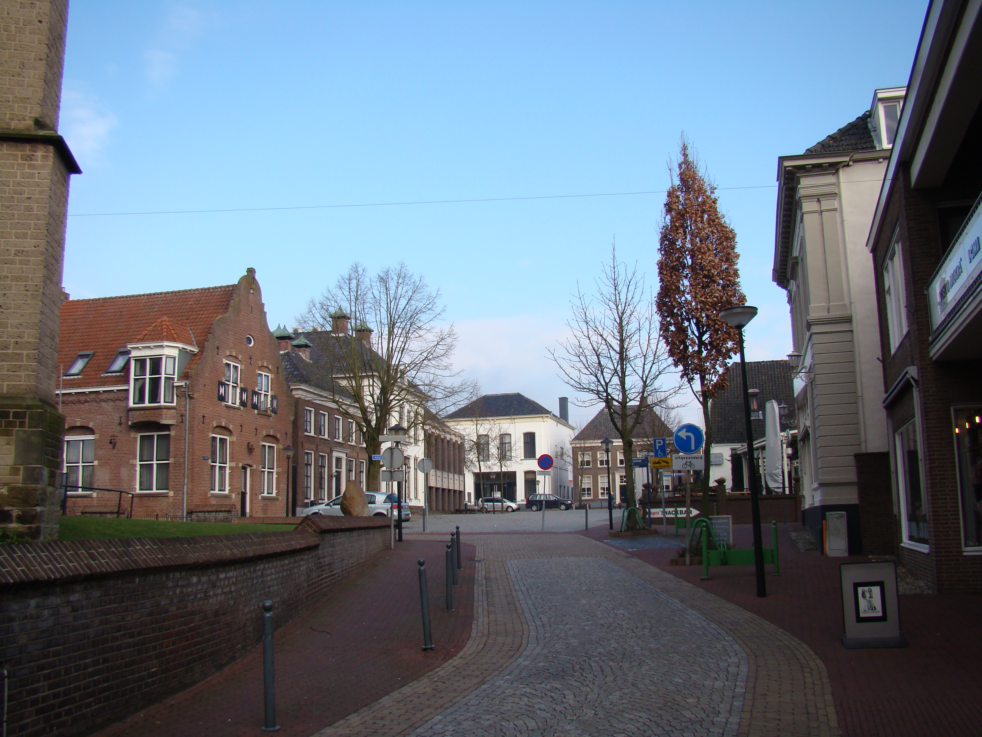 Market Aalten (Netherlands)